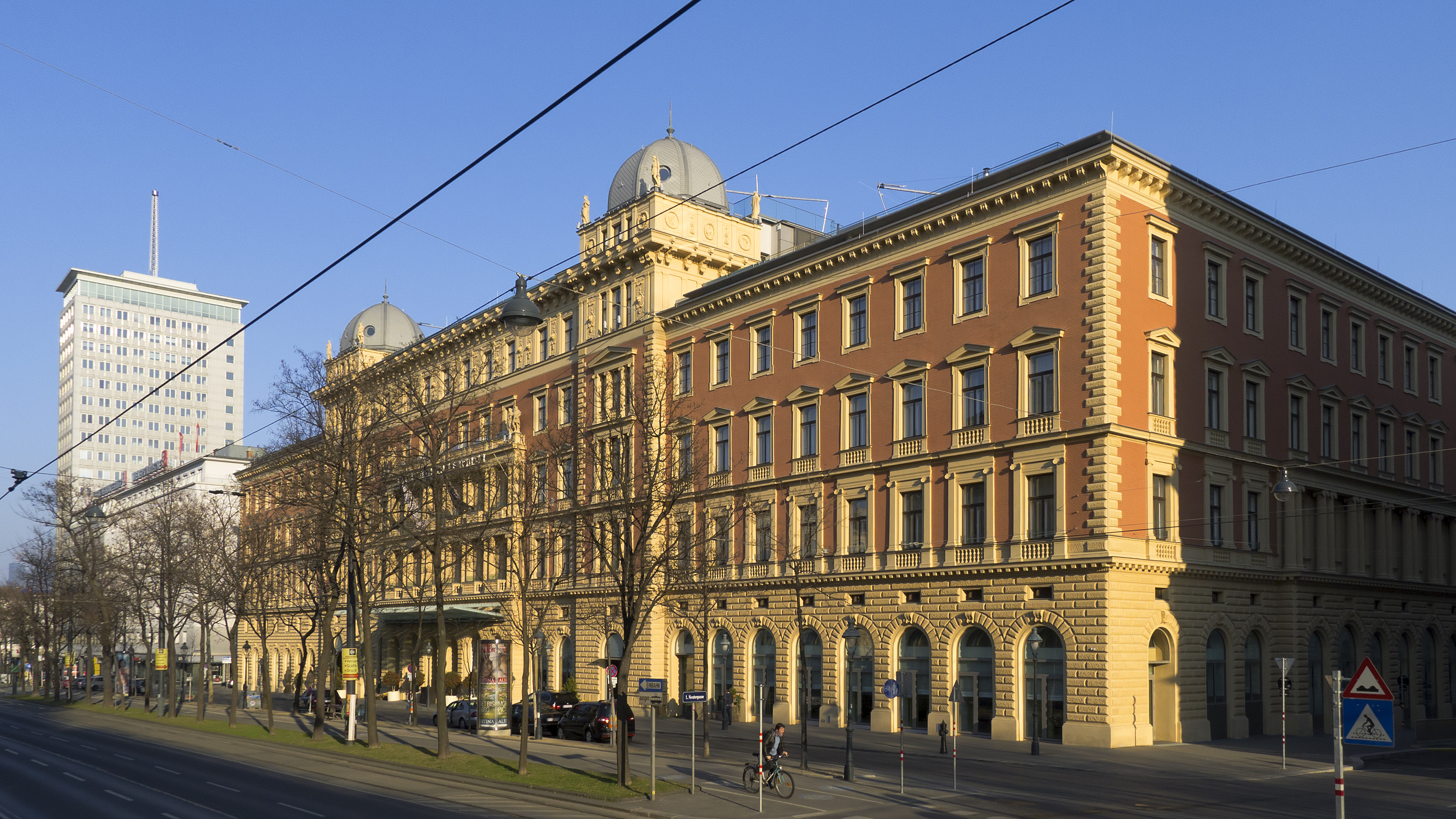 Palais Hansen in Vienna 1